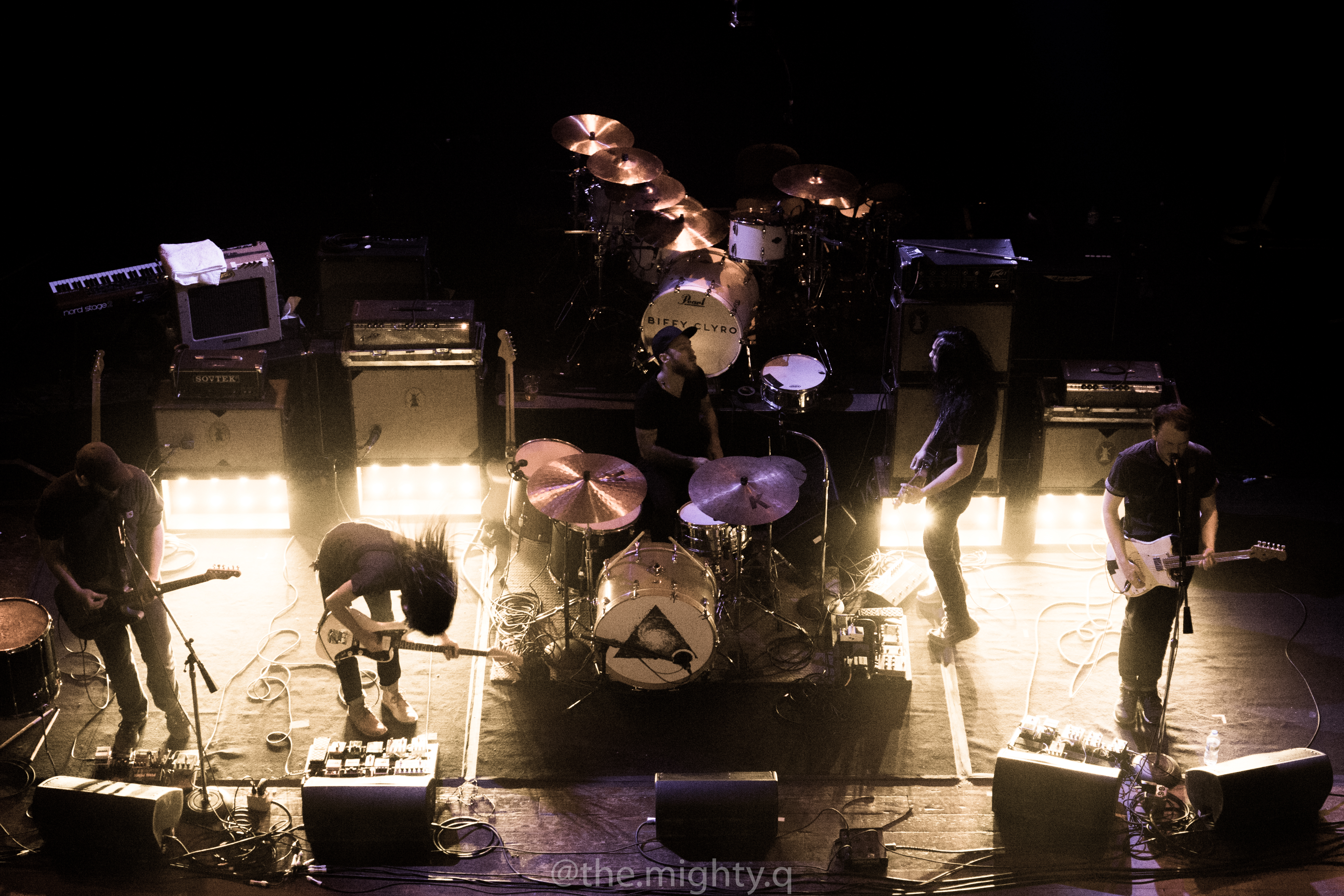 O'Brother at House of Blues Chicago, IL April 5th, 2017